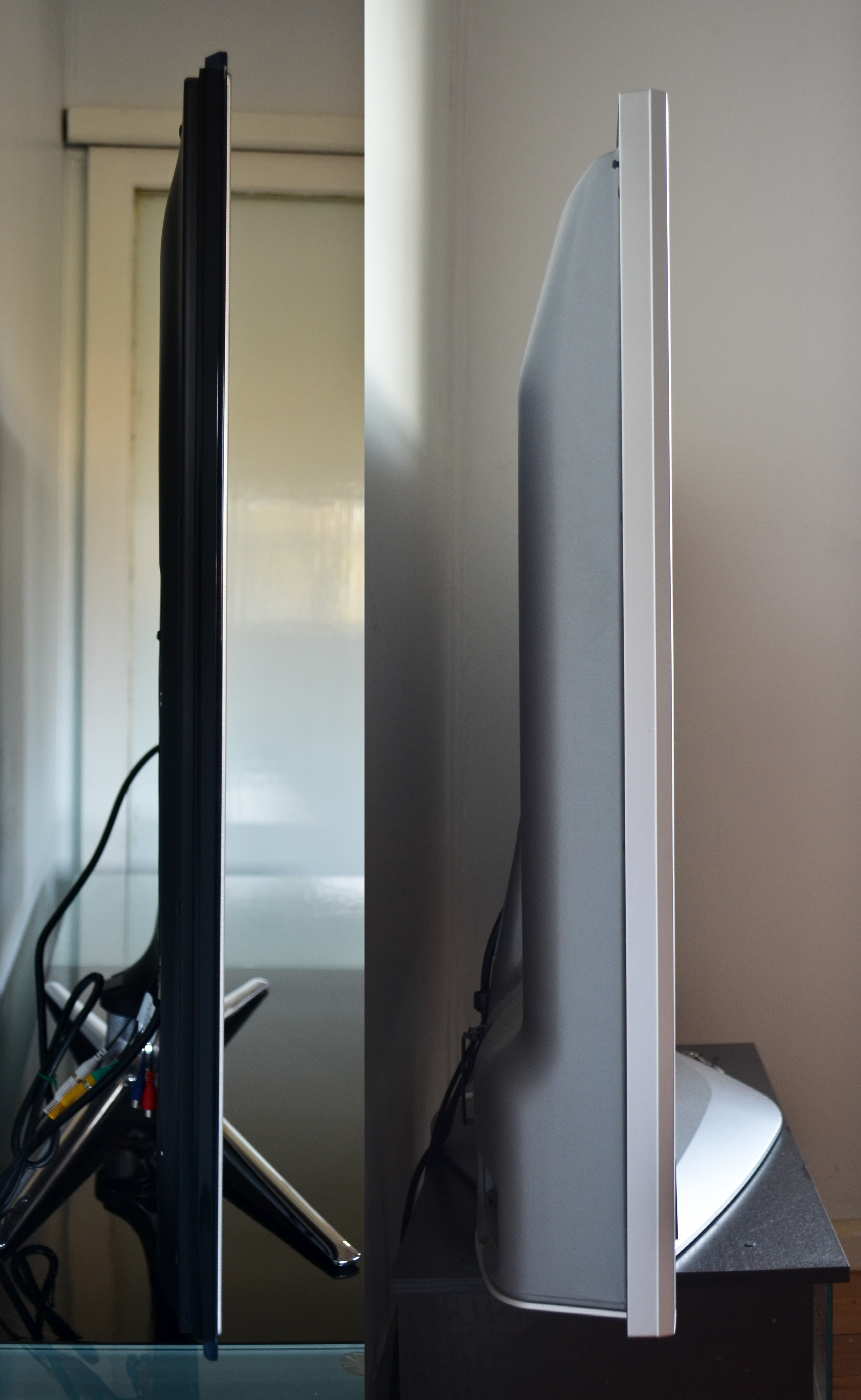 Image of a Samsung PS51D8000 manufactured in 2011 on the left and a Panasonic TH-42DX600A manufactured in 2006 on the right.